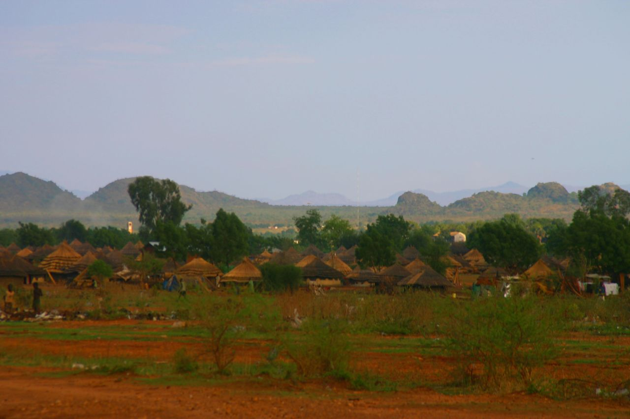 Juba, Equatoria, South Sudan. taken on March 17, 2006